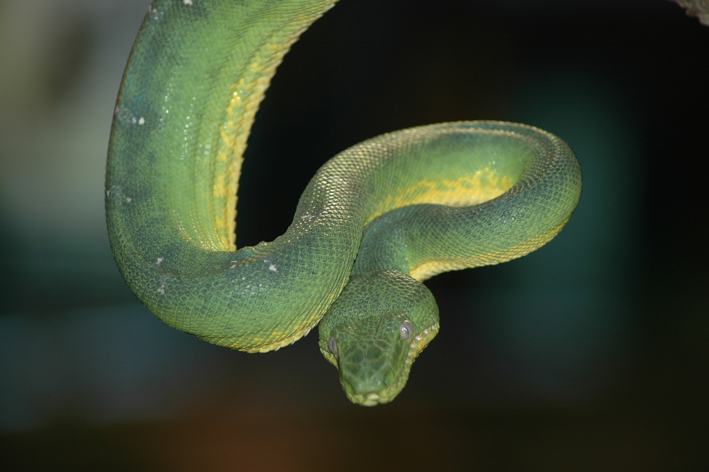 Emerald Tree Boa at the Oakland Zoo.